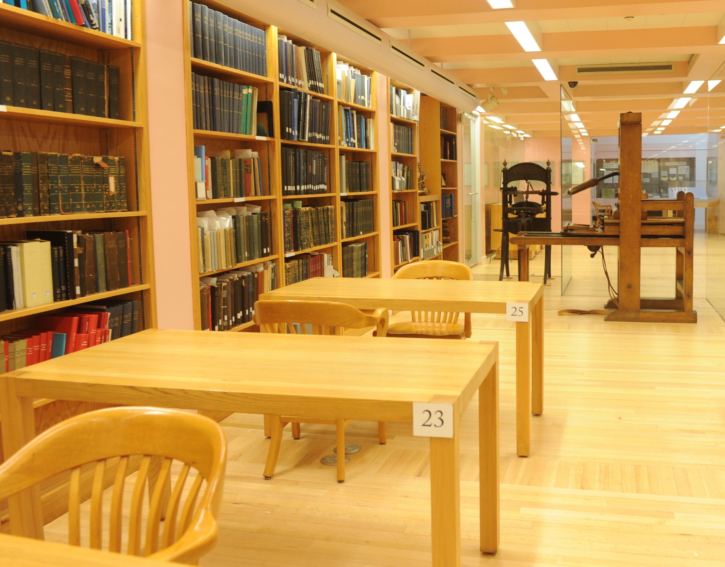 A view looking towards the entrance of the Rare Book & Manuscript Library through one of its two reading rooms.